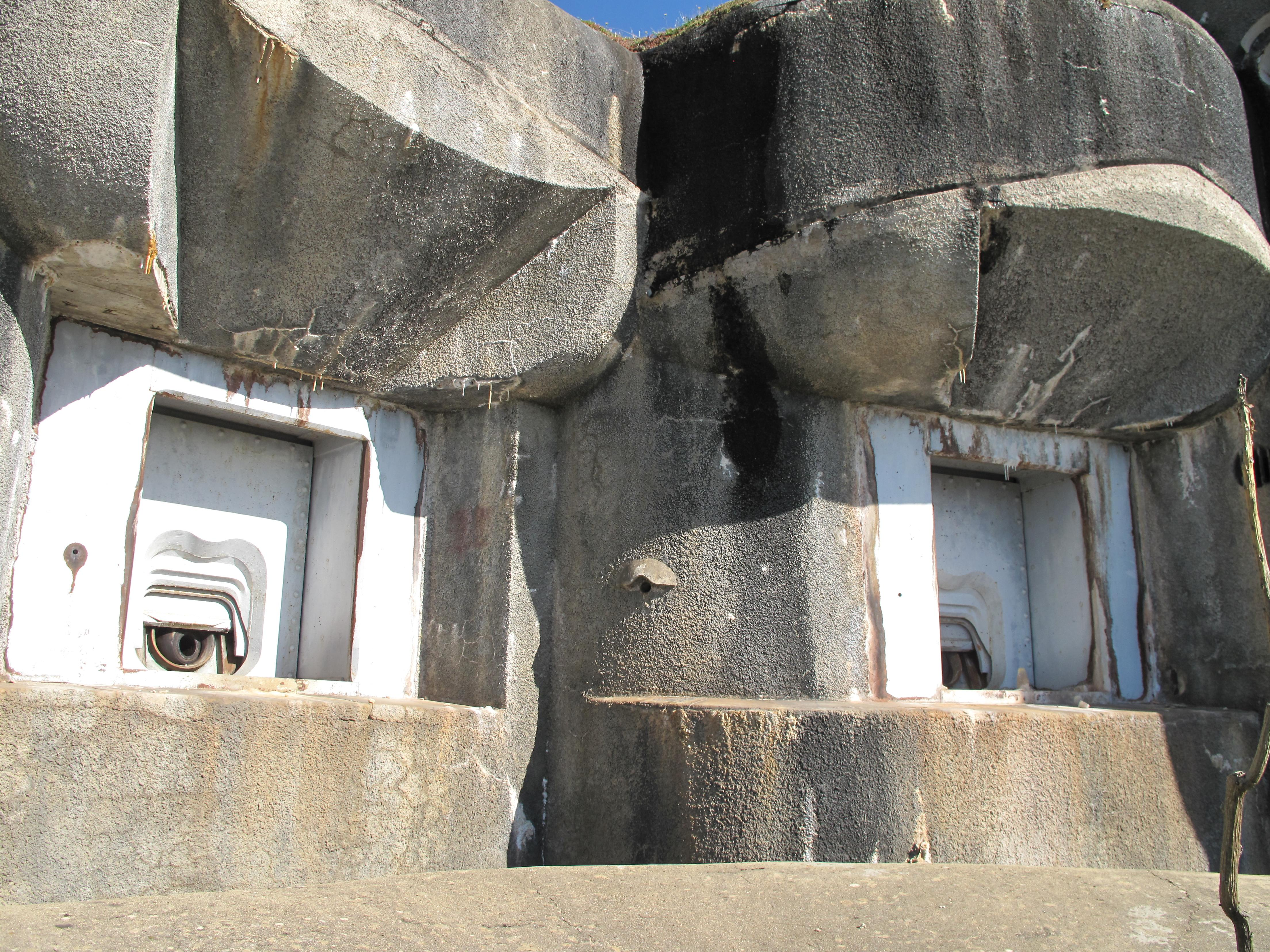 Closed view of the block #2 of the maginot fort of Sainte-Agnès, Alpes-Maritimes, France)